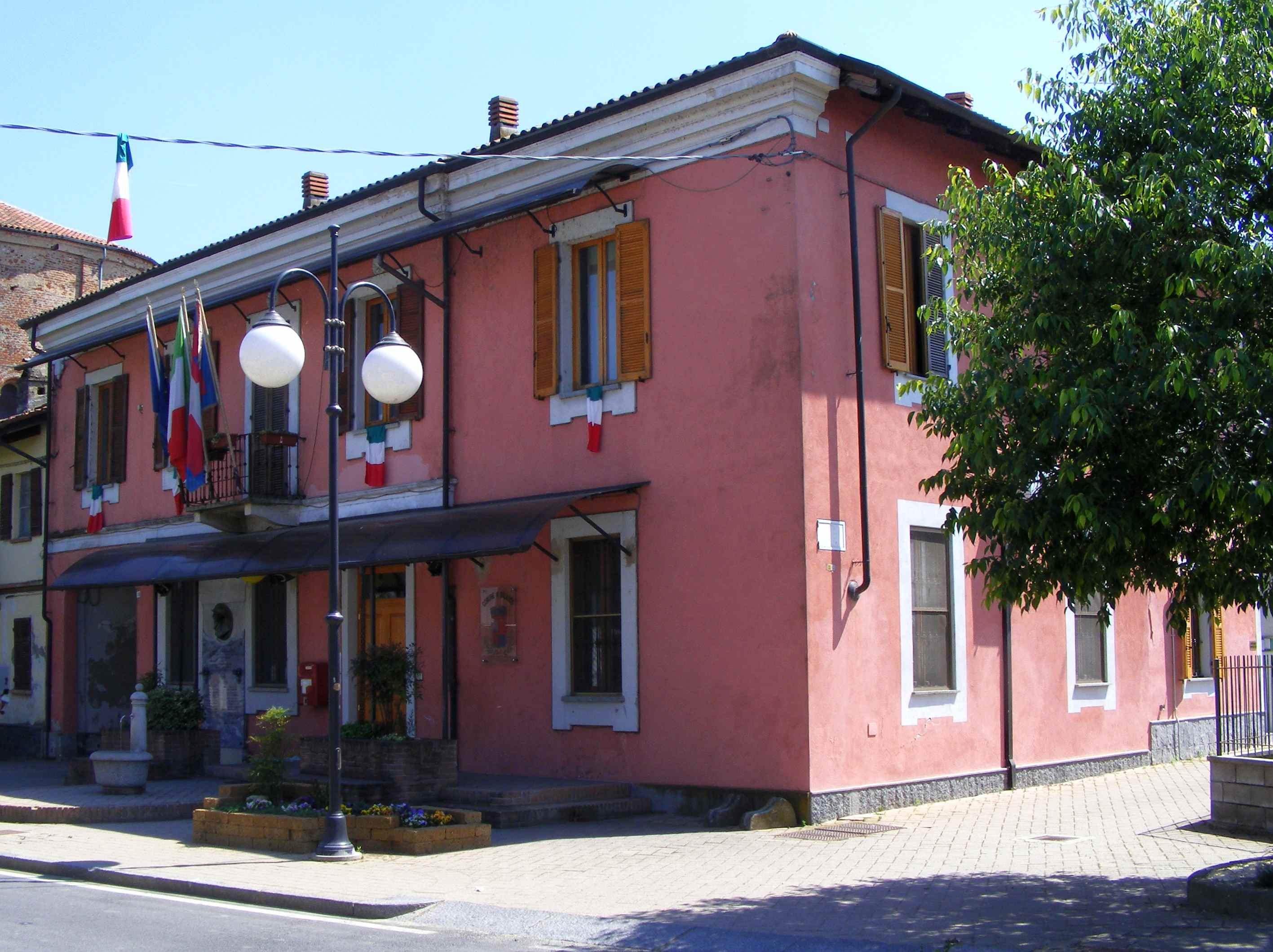 Salasco (VC, Italy): town hall